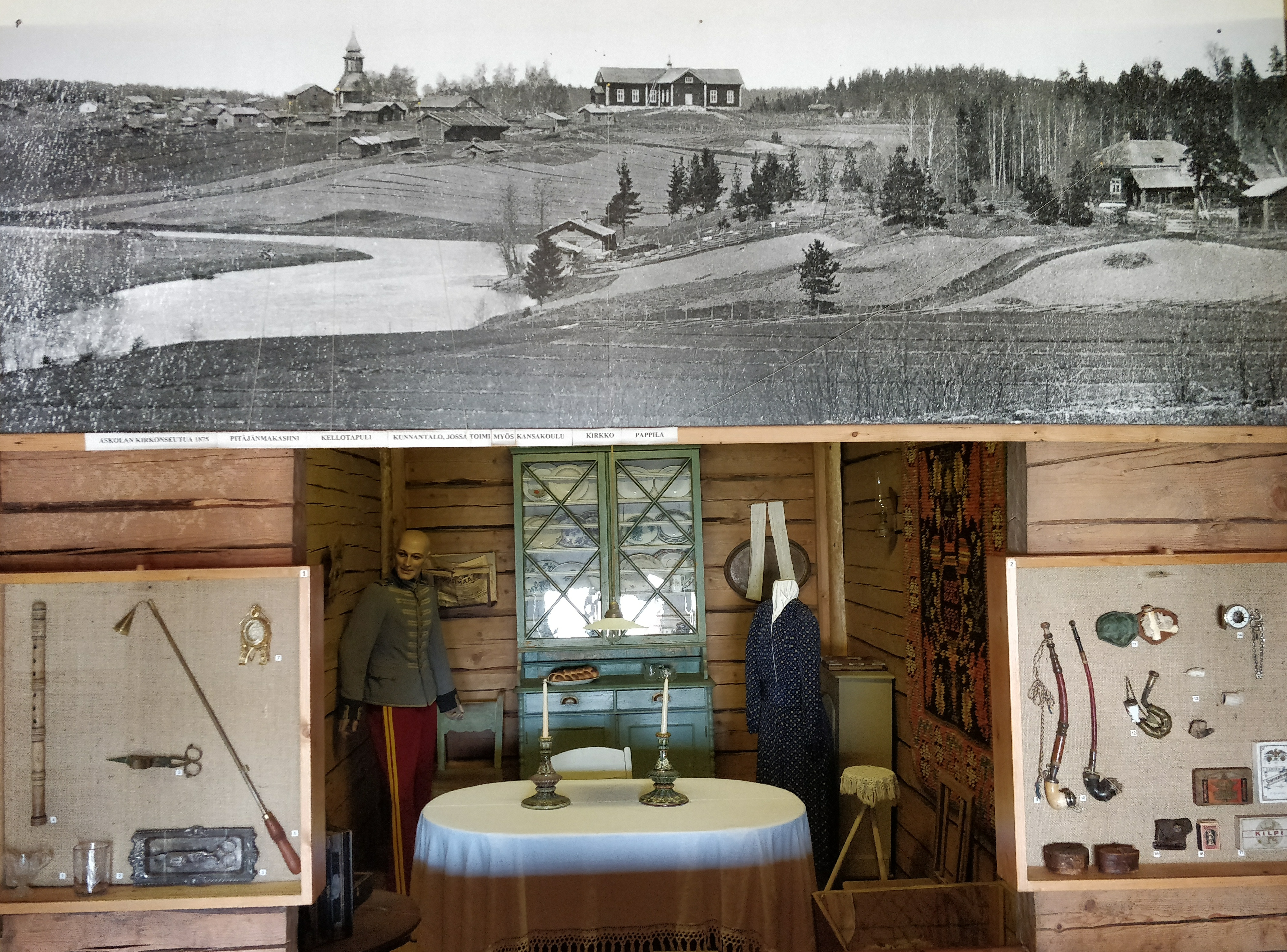 Askola museum Exhibition, museum and church on the photo (year 1875)